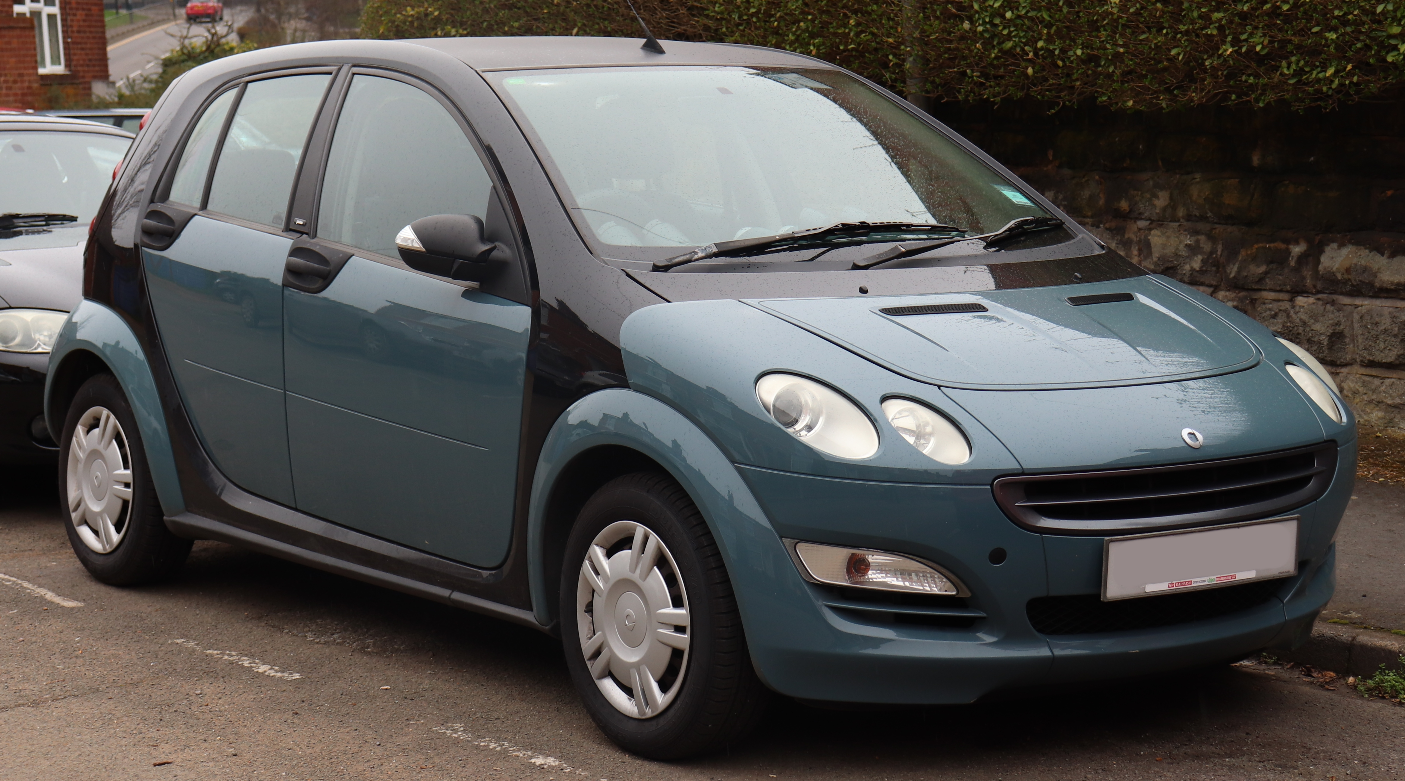 2005 Smart Forfour Pulse 1.1 Taken in Warwick